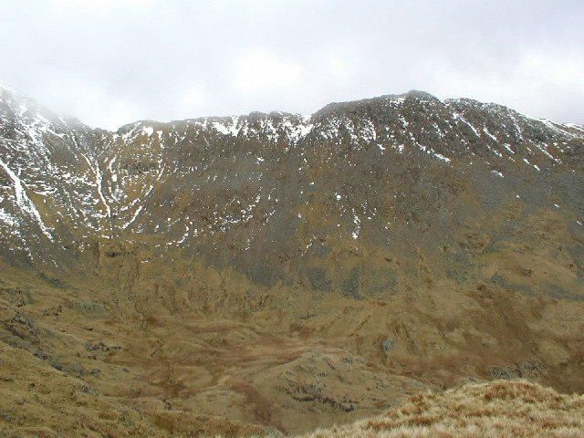 Nethermost Cove viewed from Patterdale Common with Striding Edge in the distance.